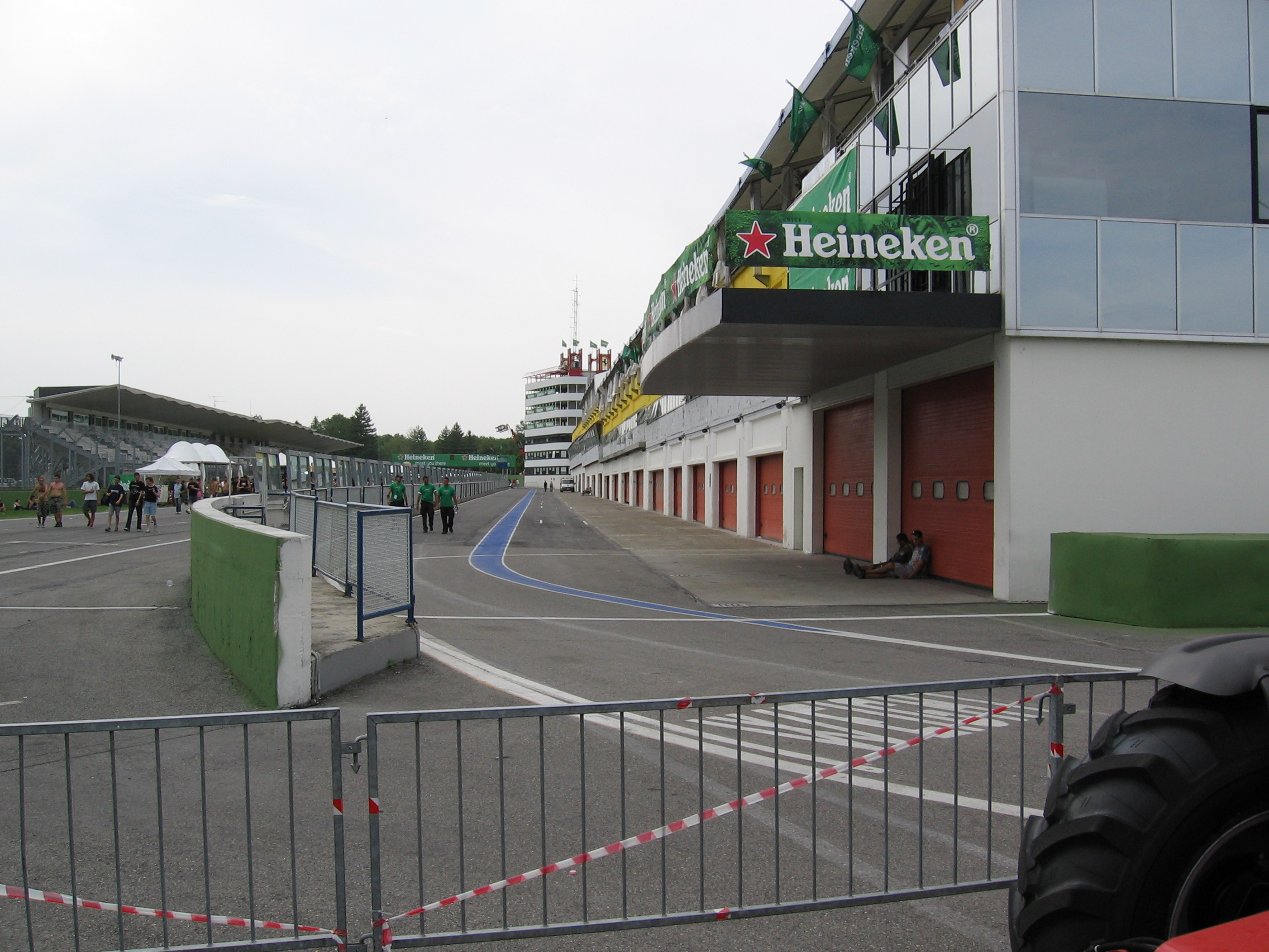 Pit lane of the Autodromo Enzo e Dino Ferrari in Imola (Italy)